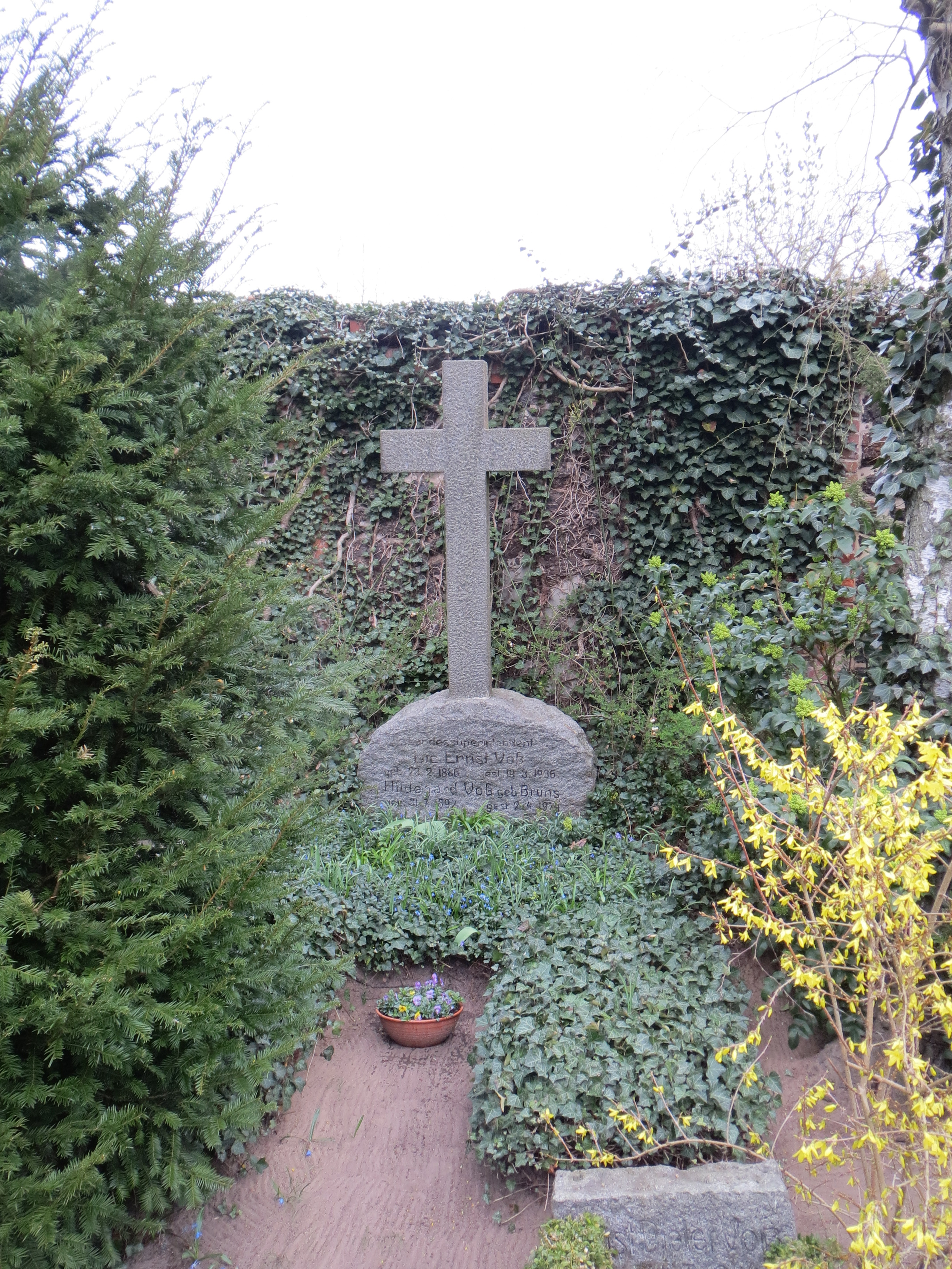 Friedhof Ludwigslust